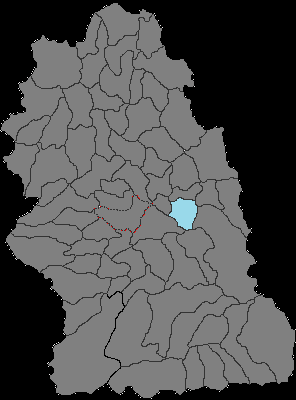 Hungarian minority in Hunedoara County (Romania), according to the 2011 census, by communes (blue = hungarian minority between 10 - 20%, grey = hungarian minority under 10%).